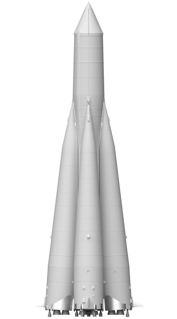 This is a rendering of the R-7 rocket modified to launch the Sputnik 1 satellite into orbit.